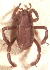 Euxenister caroli (Hetaeriinae, Coleoptera), dead specimen